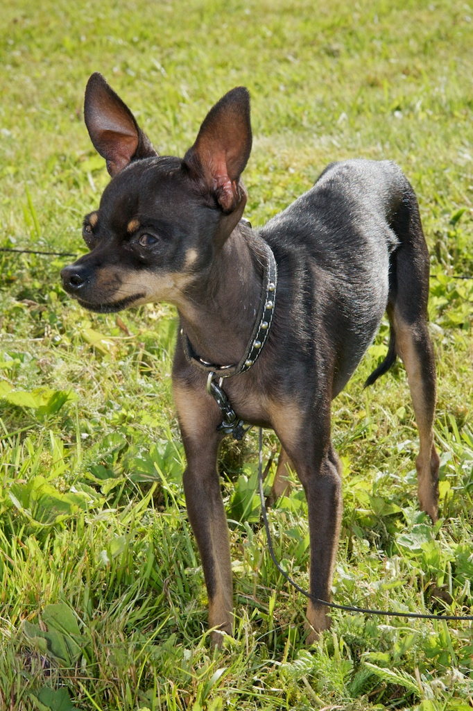 A short haired Russkiy Toy